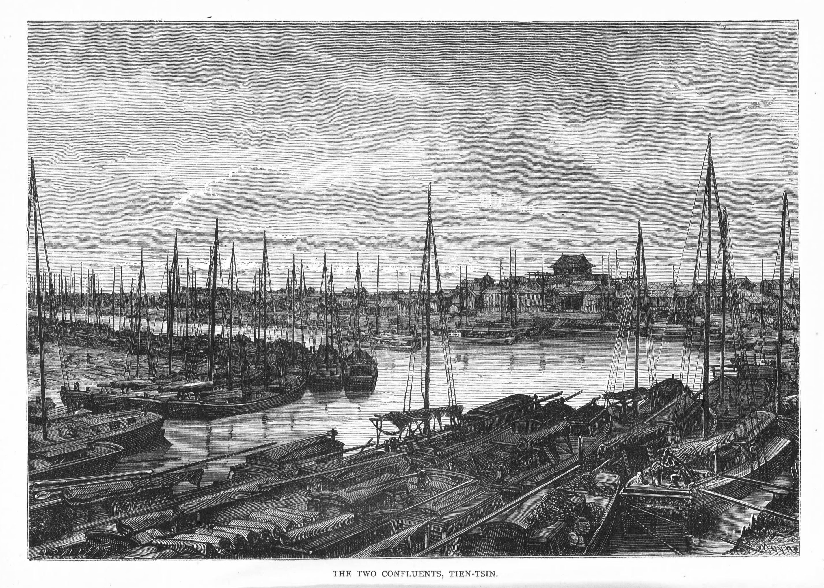 From The Evangelisation of the World; Benjamin Broomhall; Morgan & Scott, London 1887